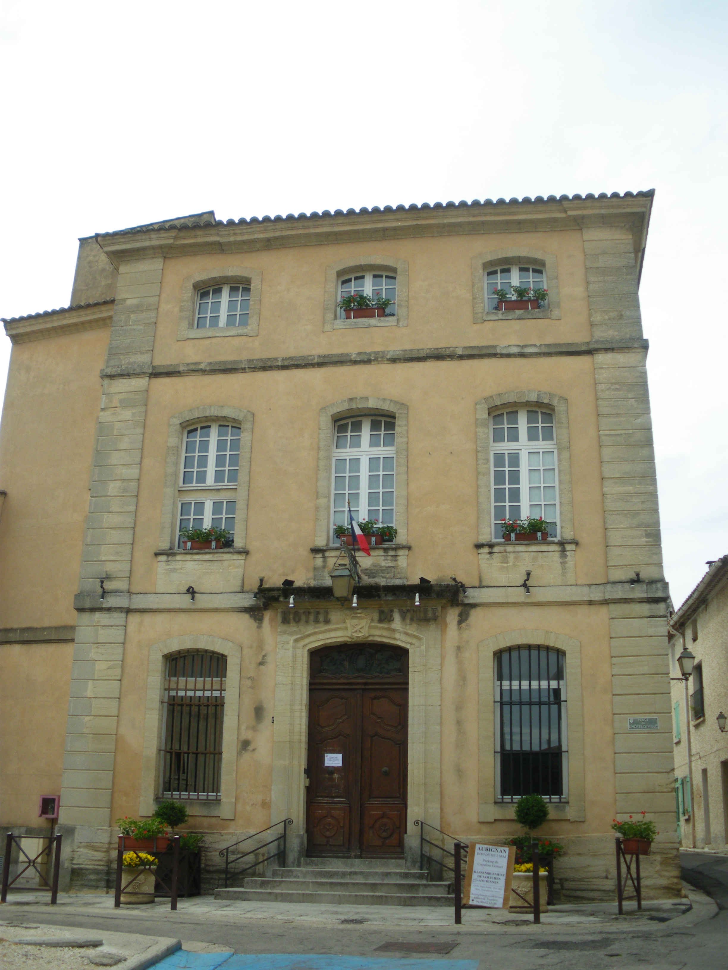 Aubignan town hall, Vaucluse